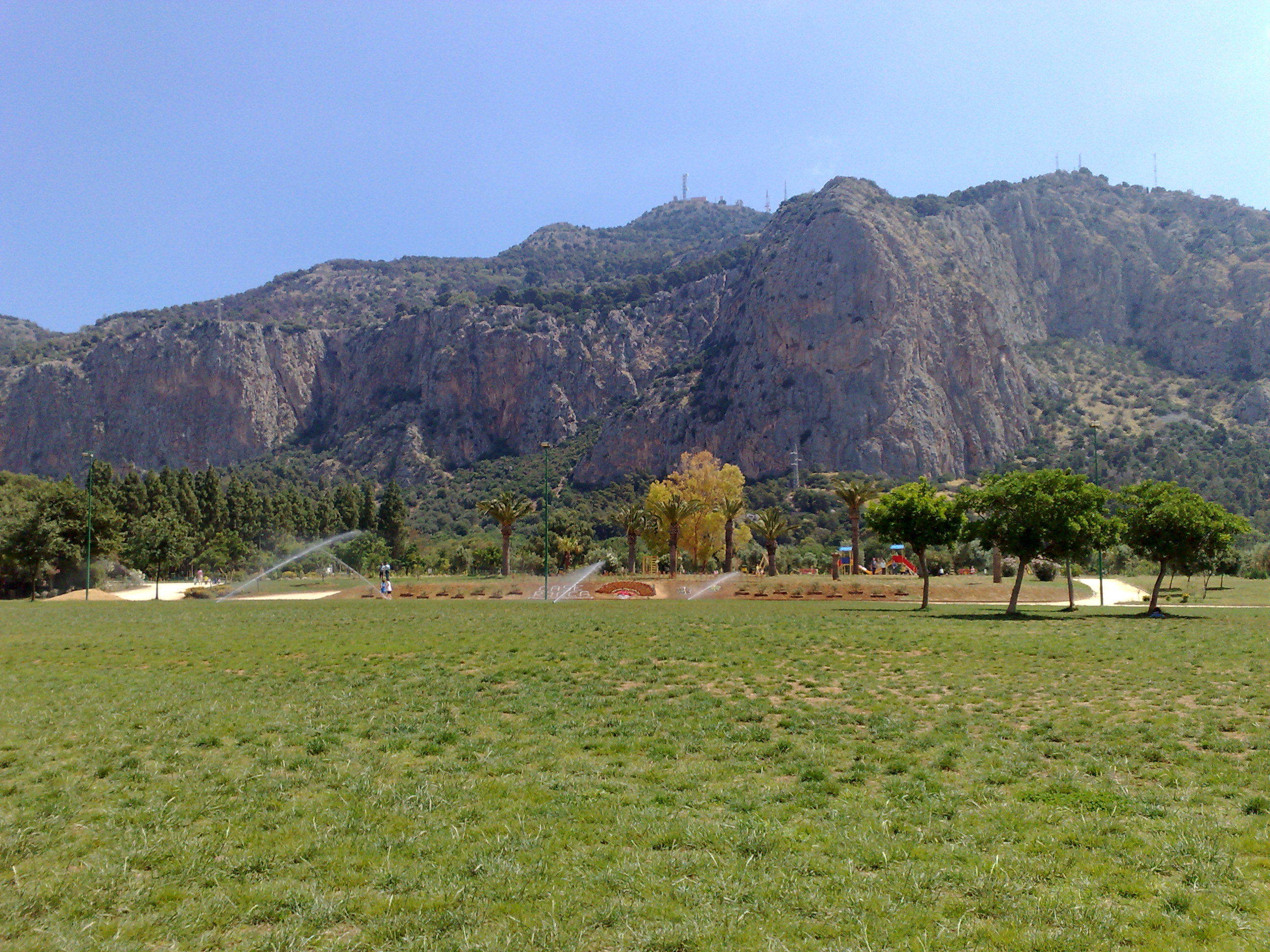 "Case Rocca" Parco della Favorita, in Palermo